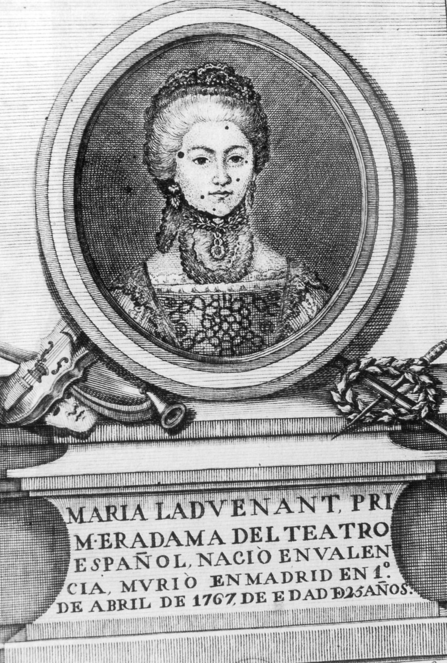 Photograph of an anonymous engraving (21 x 15 cm) exhibited at the National Museum of Theatre de Almagro (Spain). Represents a tondo bust of actress Mary Ladvenant, with the date of his death.